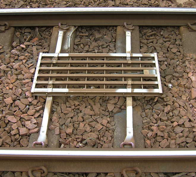 uploaded from English Wiki (Descr. there: Signalhead 20:09, 6 June 2007 (UTC)